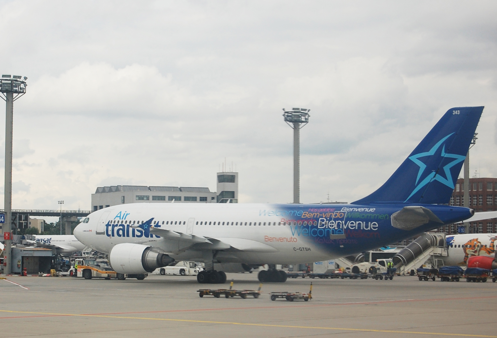 Air Transat A310 at Frankfurt Airport